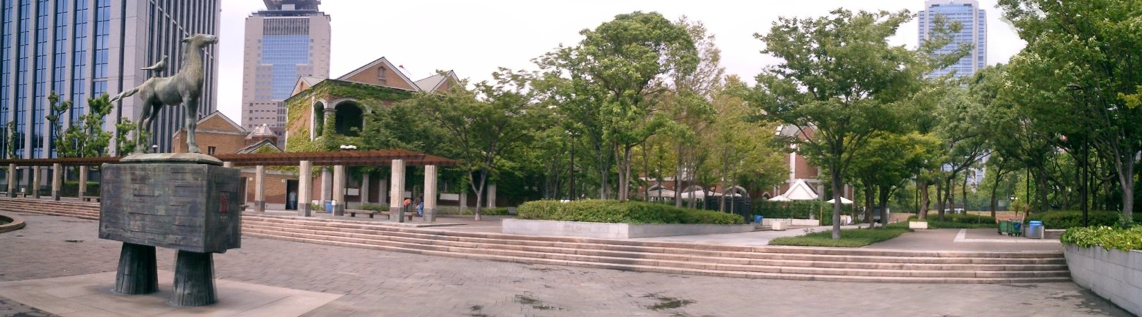 Kobe_Higashiyuenchi